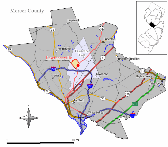 Map of Lawernceville CDP in Mercer County, New Jersey.